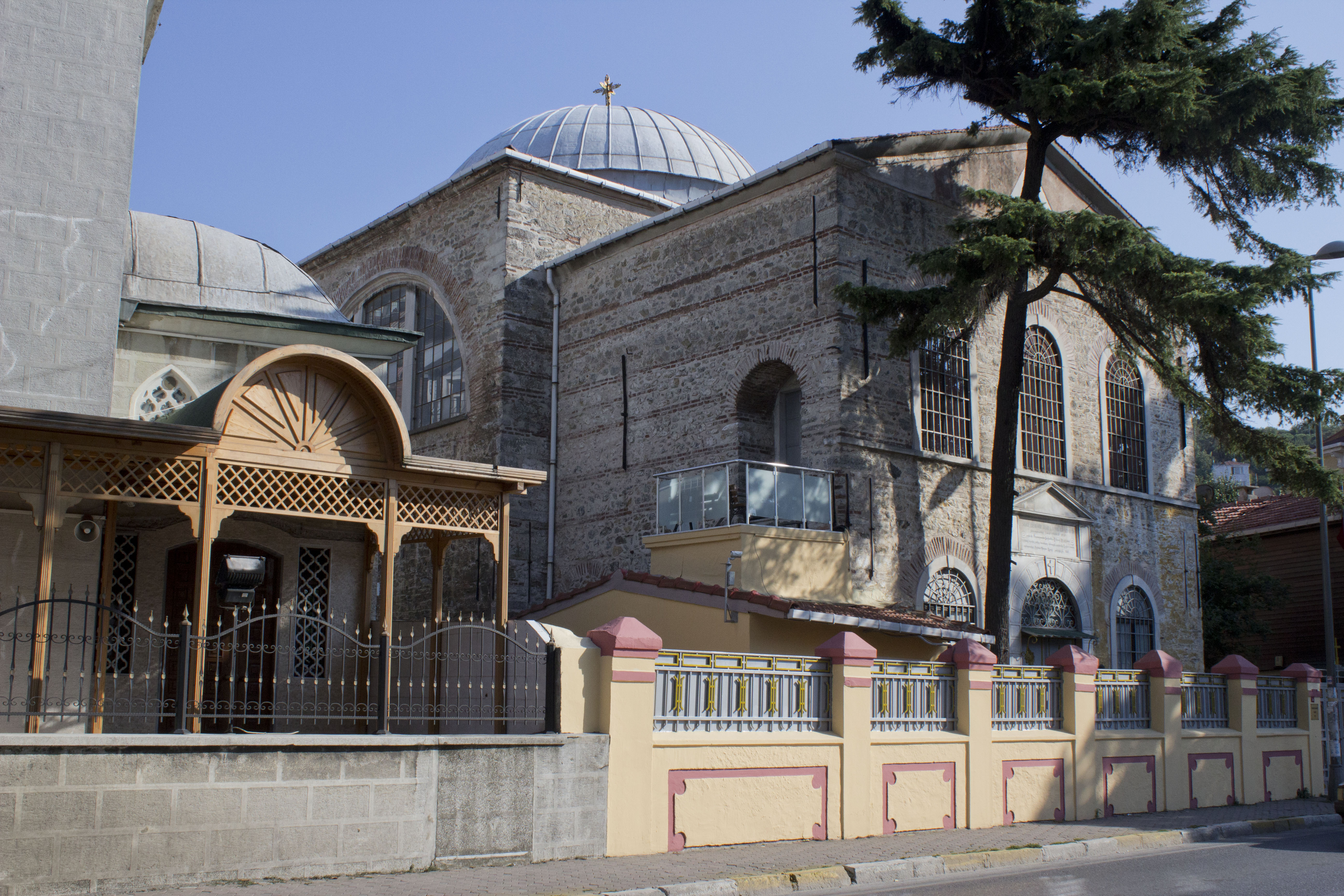 Armenian church and Ottoman-style mosque in Kuzguncuk, Istanbul, Turkey